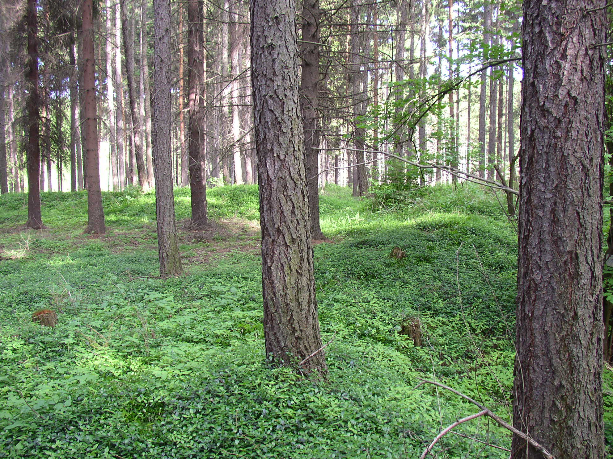 Deserted medieval village of Svídna in a forest near Drnek and Malíkovice, Kladno District, Czech Republic.